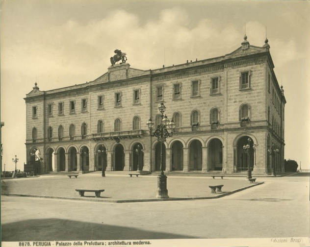 Carlo Brogi (1850-1925) - "Perugia - Palazzo della Prefettura, a modern building". Catalogue # 8878.